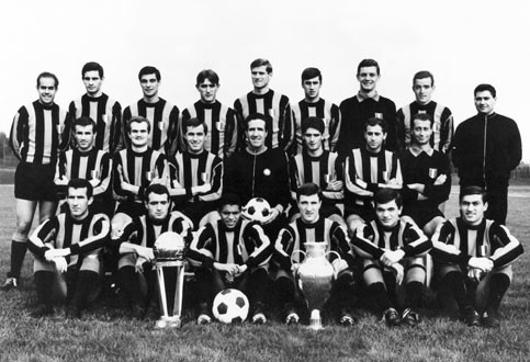 The Inter Milano team posing with the UEFA Champions League and Intercontinental Cup trophies won.